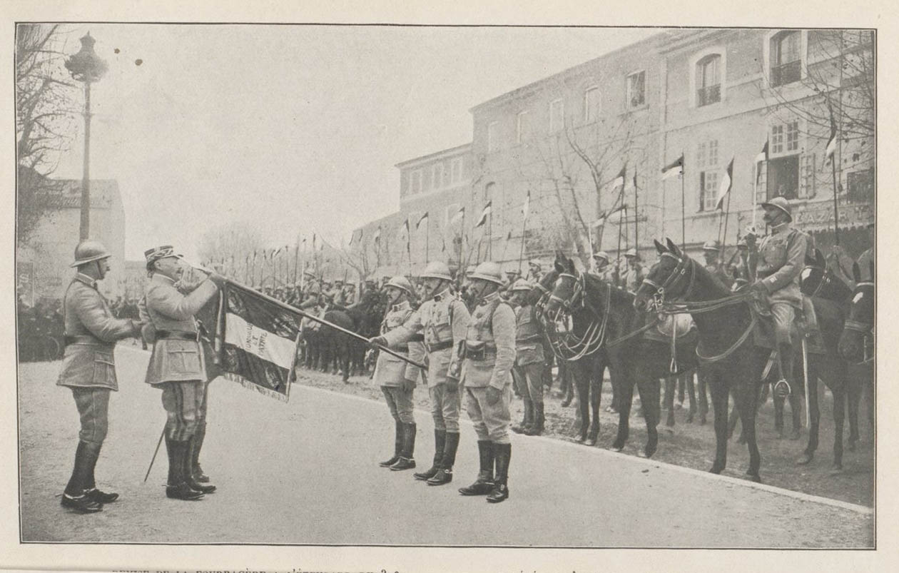 31st Regiment of Dragoons (France) in 1918